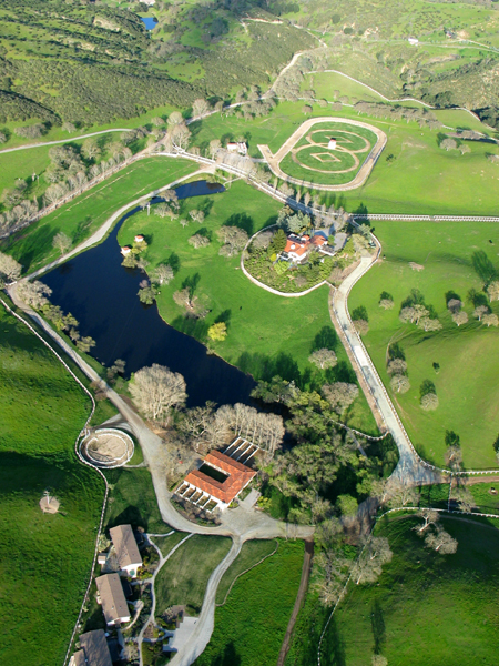 Aerial photograph of a ranch in Creston, San Luis Obispo County, California, where Scientology founder L. Ron Hubbard spent his last days. A Scientology-related symbol is visible within a racetrack.